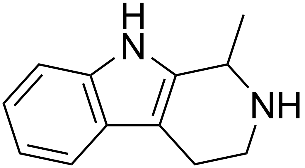 chemical structure of tetrahydroharman